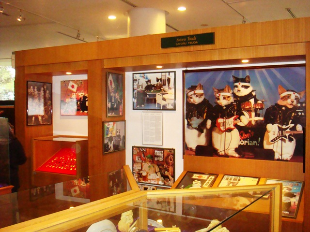 A gallery in Kuching cat museum displaying some of the works by Japanese photographer Satoru Tsuda which is also known as the brand name of Don't Perlorian!. The photographs were produced by dressing real cats in specific costumes and then arranged them inside cat-sized dioramas.